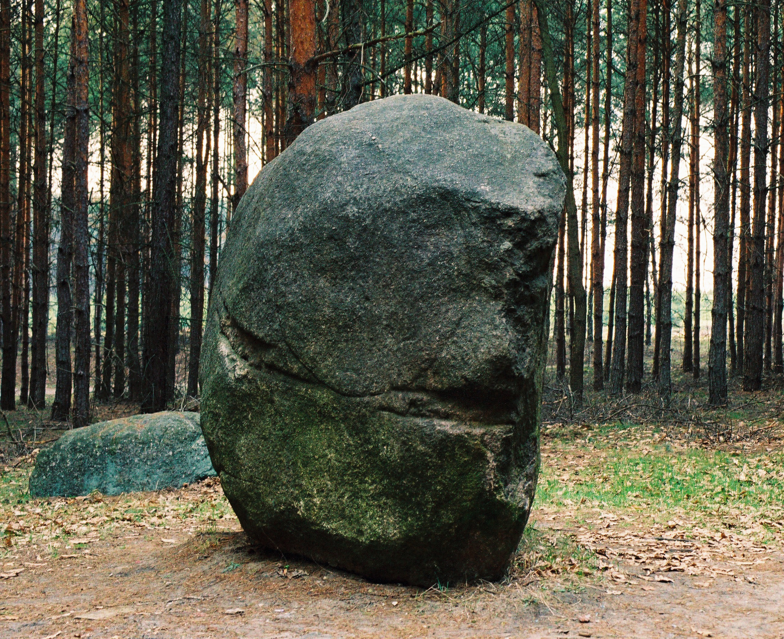 Olszyna - village in Gmina Herby, Poland, Author: Przykuta 06:23, 27 April 2006 (UTC) Date: April 2006